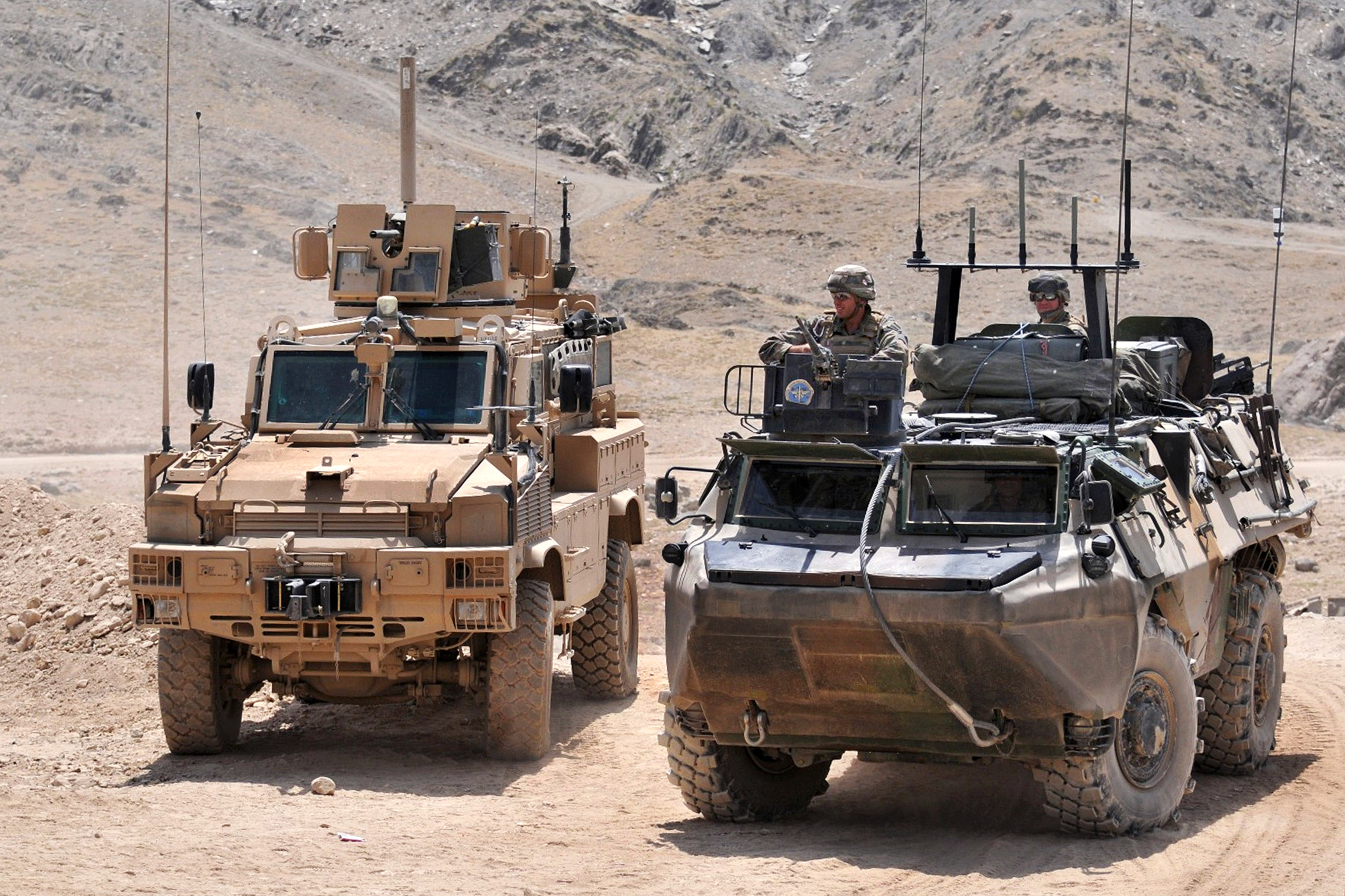 A U.S. mine resistant ambush protected vehicle and a French tactical armored vehicle bring troops back from a mission in Shpee valley to Combat Outpost Belda in Kapisa province, Afghanistan, Aug. 7, 2009.